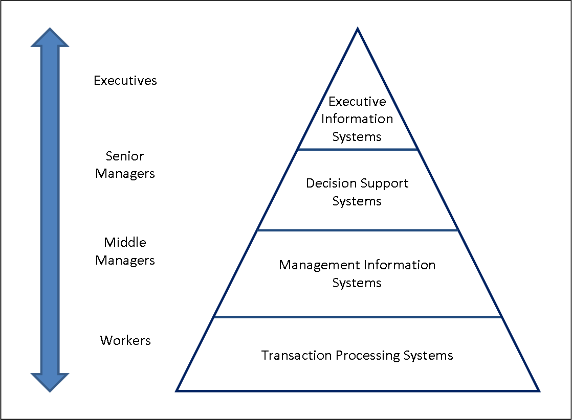 A four level pyramid model of different types of Information Systems based on the different levels of hierarchy in an organization